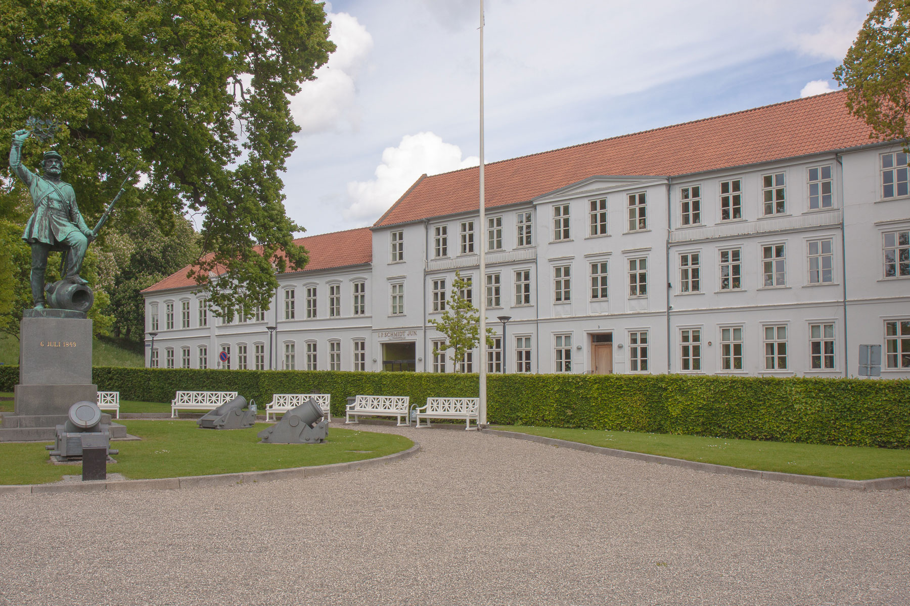 The Tobacco Factory, J.P. Schmidt Jun., building, renovated, 1. June 2015.